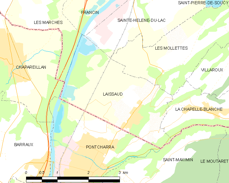 Map of French municipality